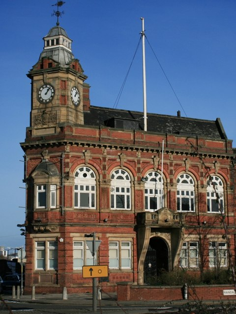 Thornaby Town Hall Built in 1892 the Town Hall was a source of pride for the young town. A plaque reads: "By The Generosity Of Alderman William Anderson, First Mayor of Thornaby-on-Tees The Clock and Chimes in this Tower were given for the Benefit of the People." The architect was James Garry of West Hartlepool. Pevsner describes the building as "a totally undistinguished design on a visually most unsuitable site". Not to his taste then. Today the Thornaby Town Council stills meets here although most of the original administrative functions of the Municipal Borough of Thornaby-on-Tees have been absorbed into the present Borough Council of Stockton-on-Tees. The building itself is Grade II listed.